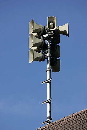 Siren horns in the village of Bretzwil, Switzerland